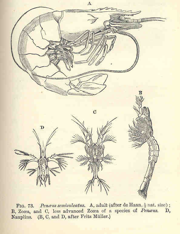 Penaeus semisulcatus Subject: Penaeus semisulcatus Tag: Shellfish